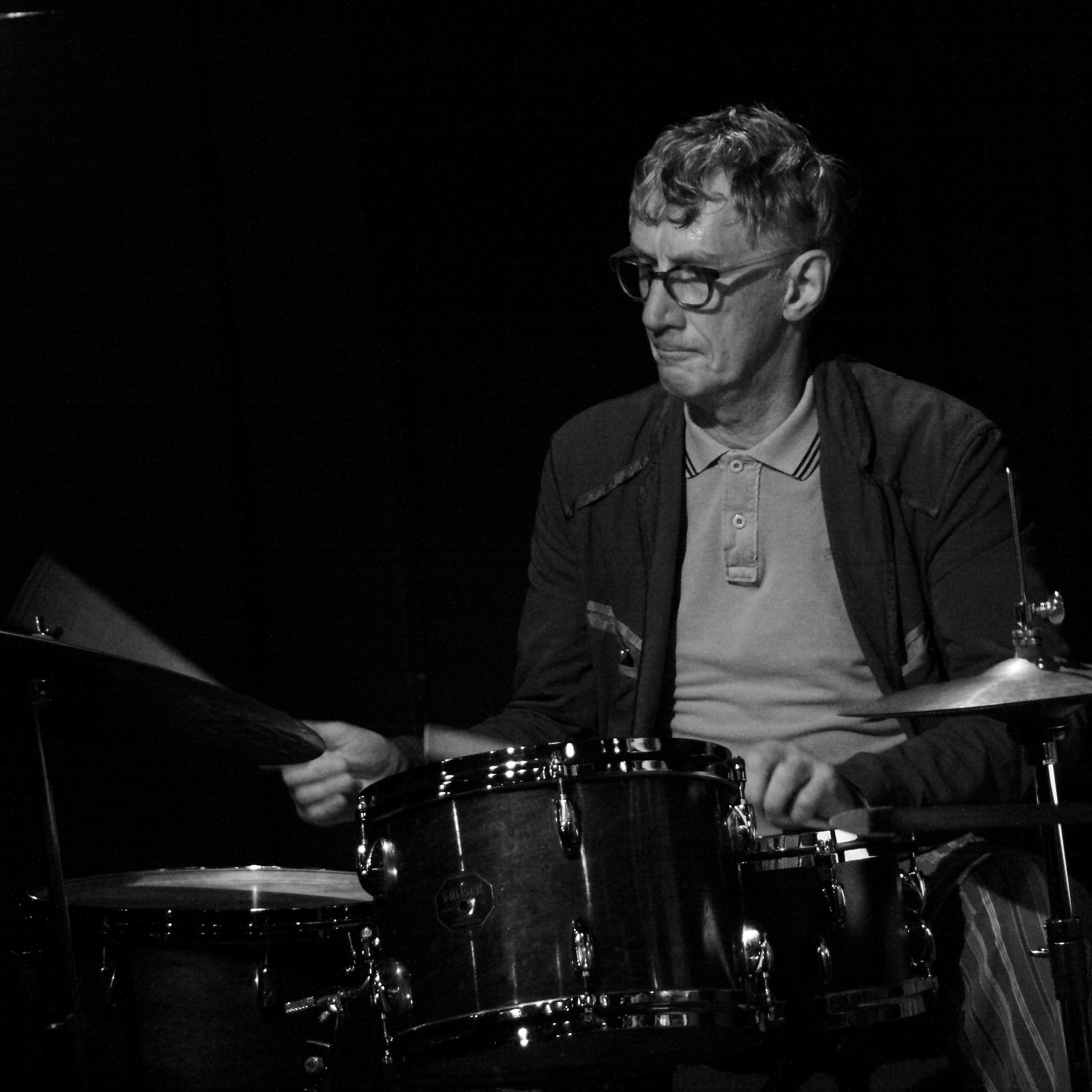 Martin van Duynhoven with Ab Baars Trio at Club W71, Weikersheim.